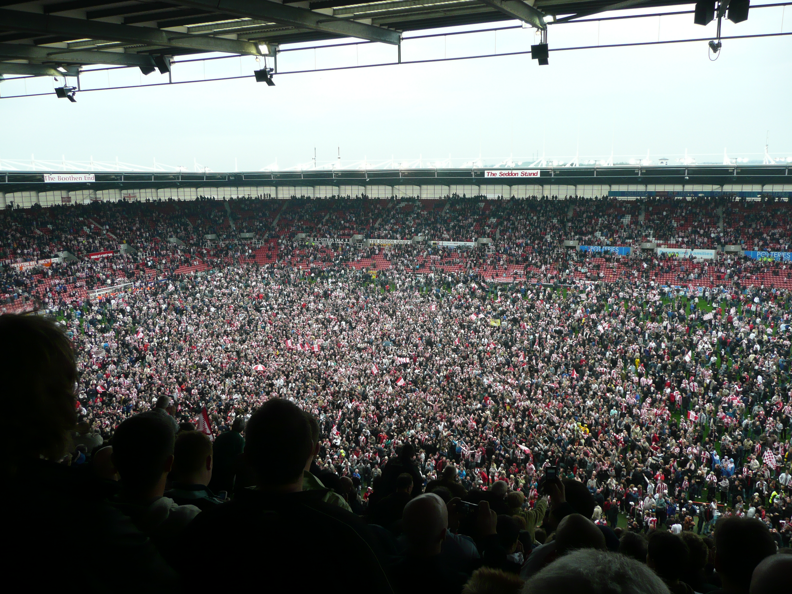 Stokies celebrate following promotion to Premier League